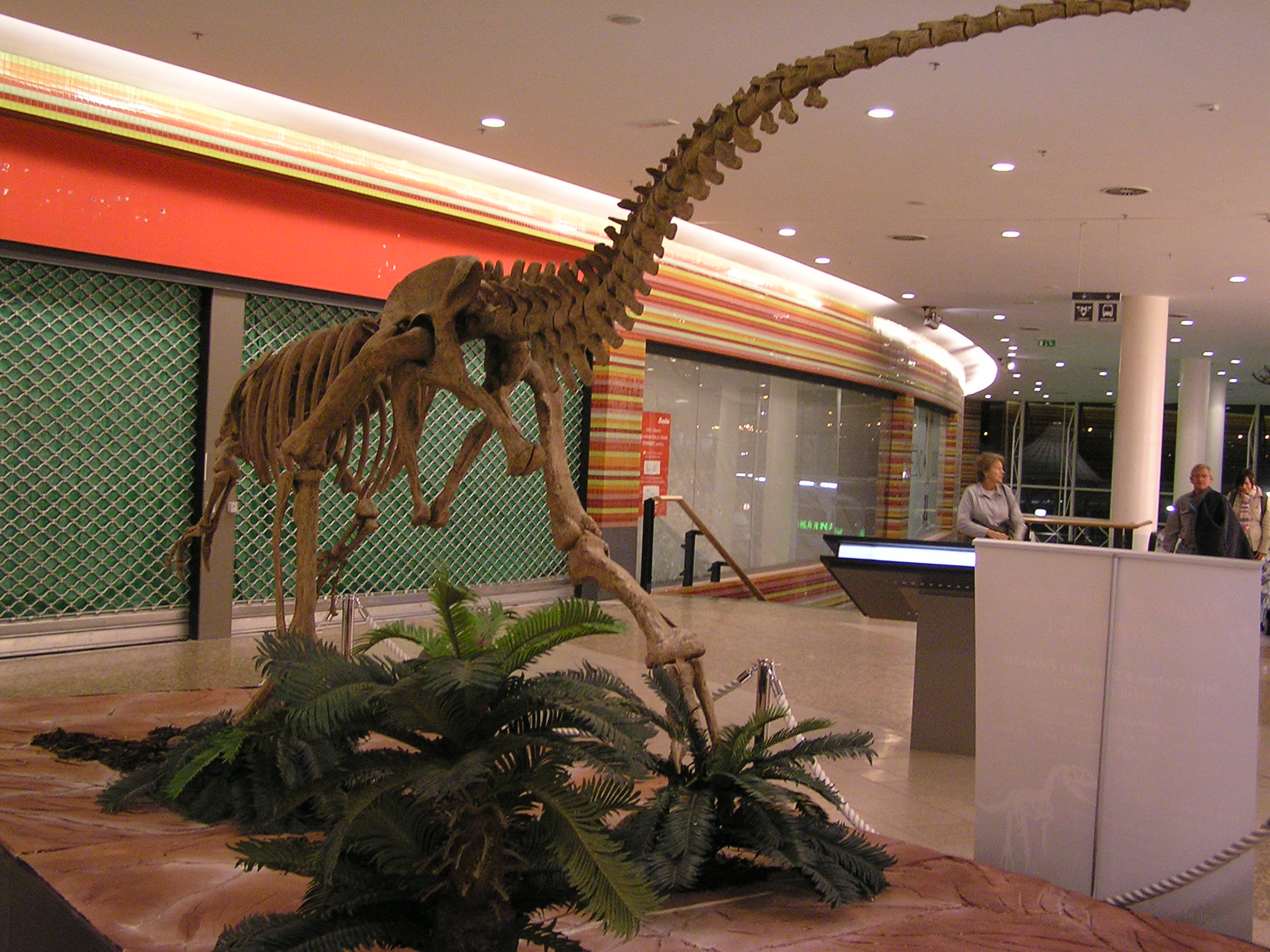 Piatnitzkysaurus floresi - this agile and terrible predator of Patagonia is related to the allosaurs of the Northern Hemisphere. It is one of the few known carnivores from the Jurassic of Gondwana.